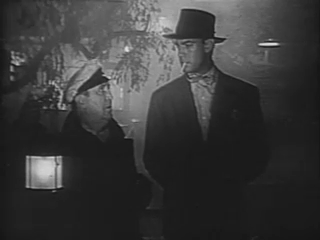 Dennis O'Keefe (right) in the 1946 film Doll Face